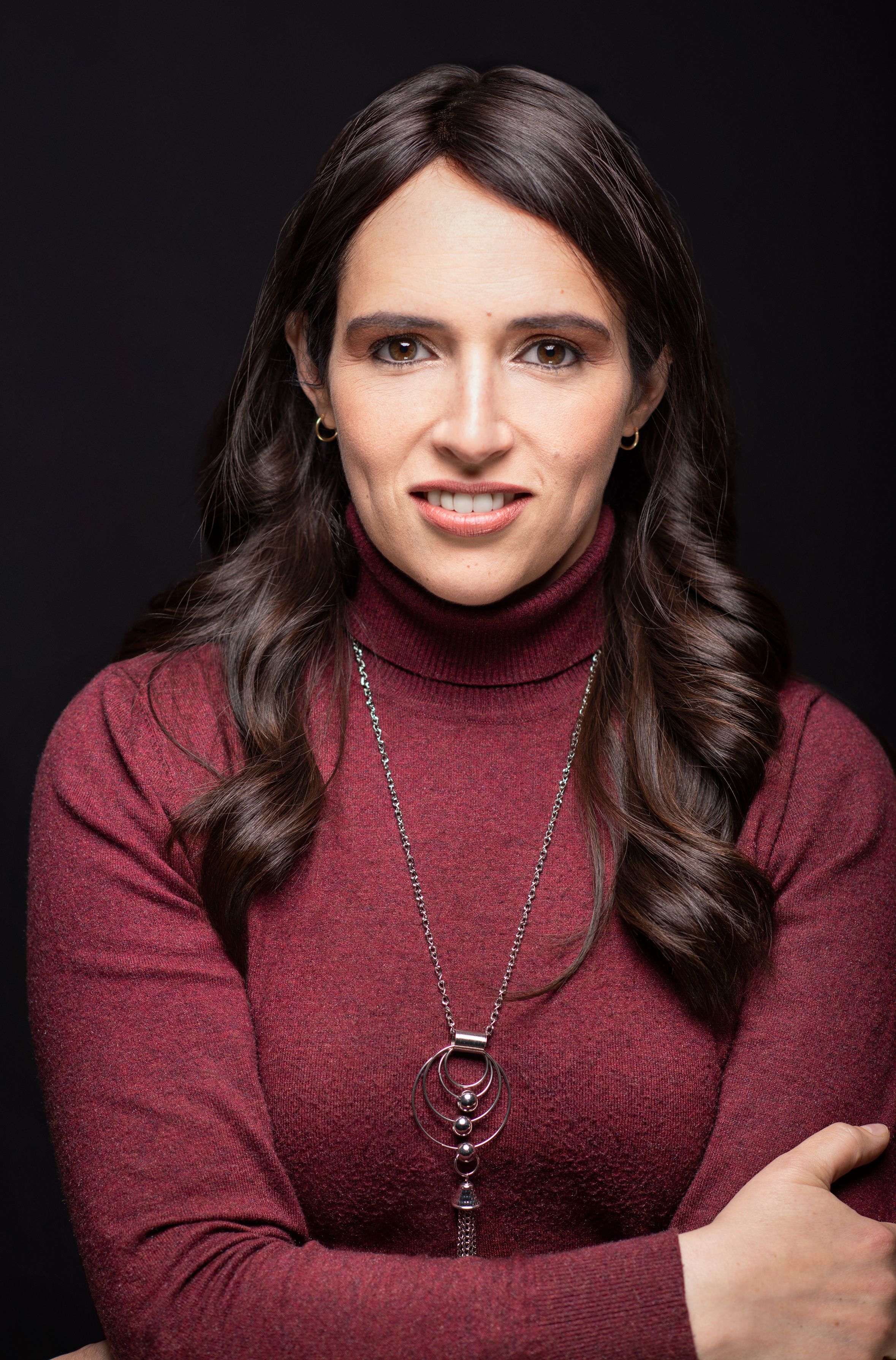 Naomi Zwebner